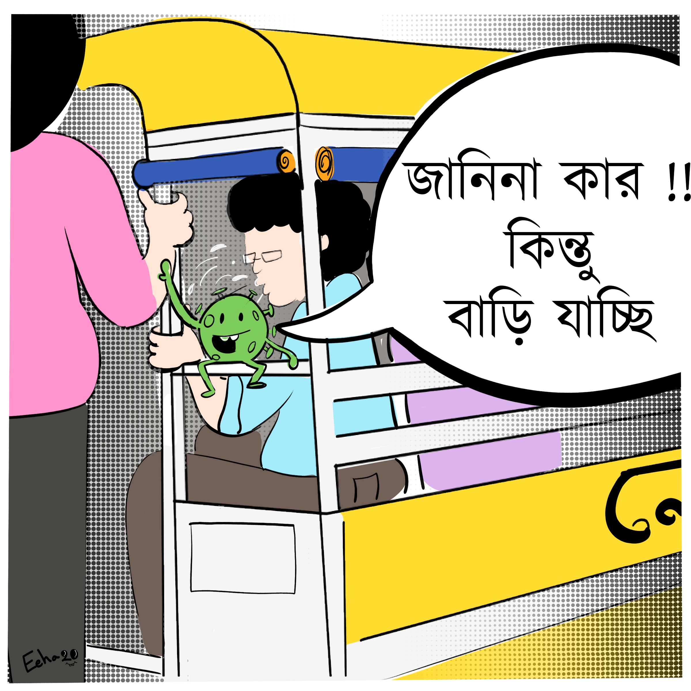 Artist, Visualization & dialogue : Anika Nawar Eeha Concept: Abdullah Al Mamun